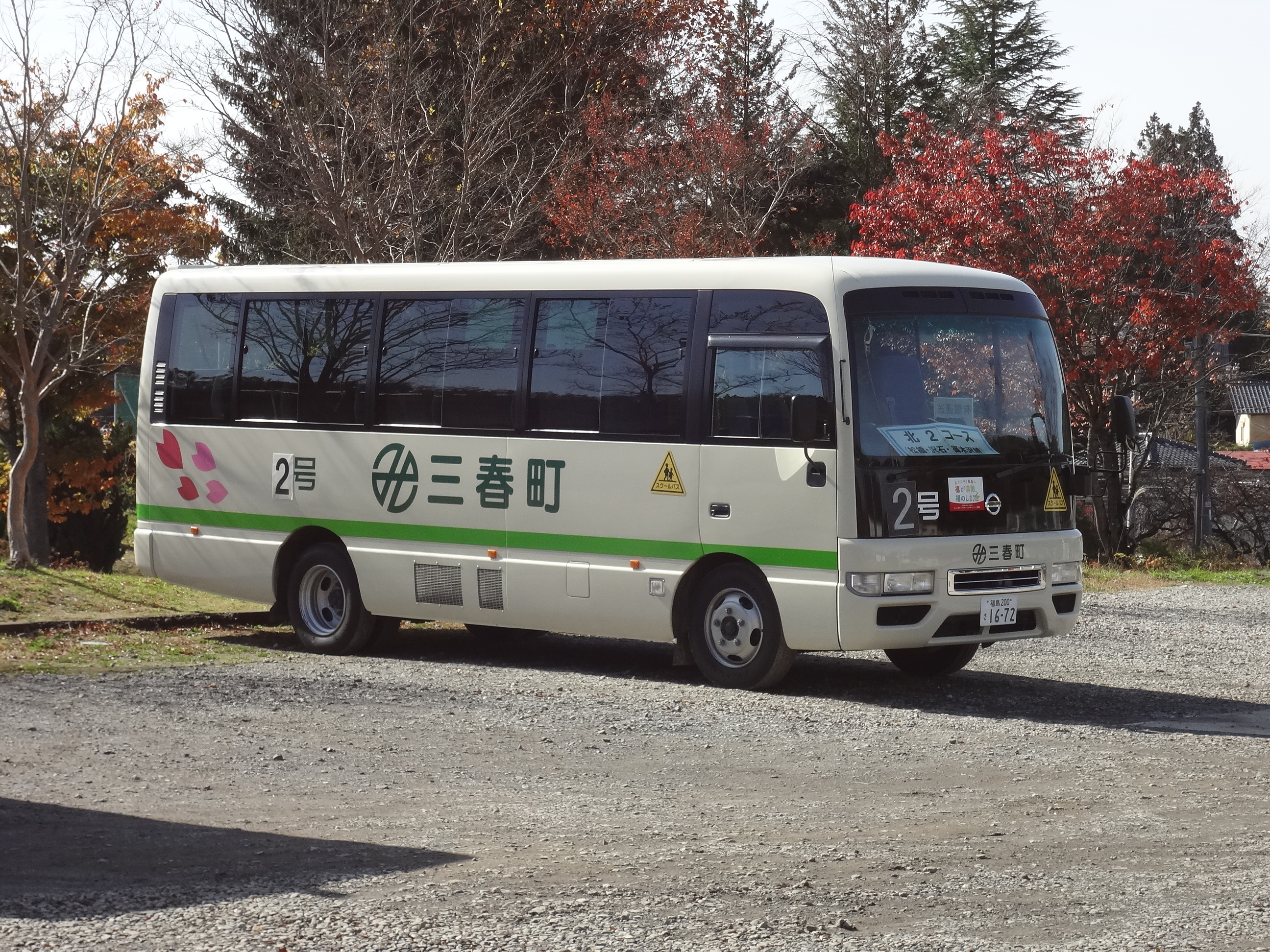 Miharu Town Bus Nissan Civilian